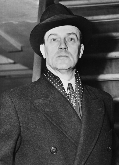 Minister and lawyer Hjalmar Procopé.